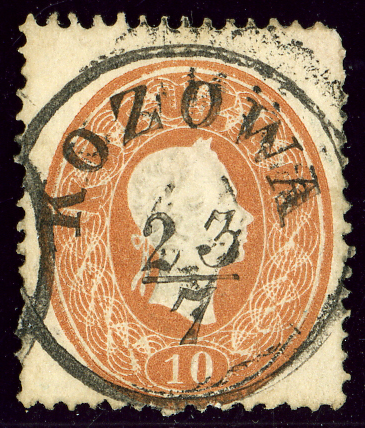 Austrian KK 10 kreuzer stamp issue 1861, cancelled in Polish KOZOWA (Bezirk Brzezany, Galicia, Ukraine)